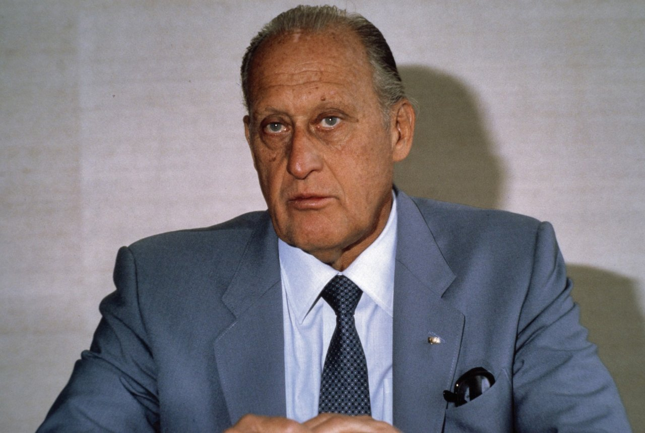 João Havelange, President of FIFA